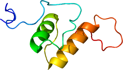 Structure of protein MKL1.Based on PyMOL rendering of PDB 2KVU.